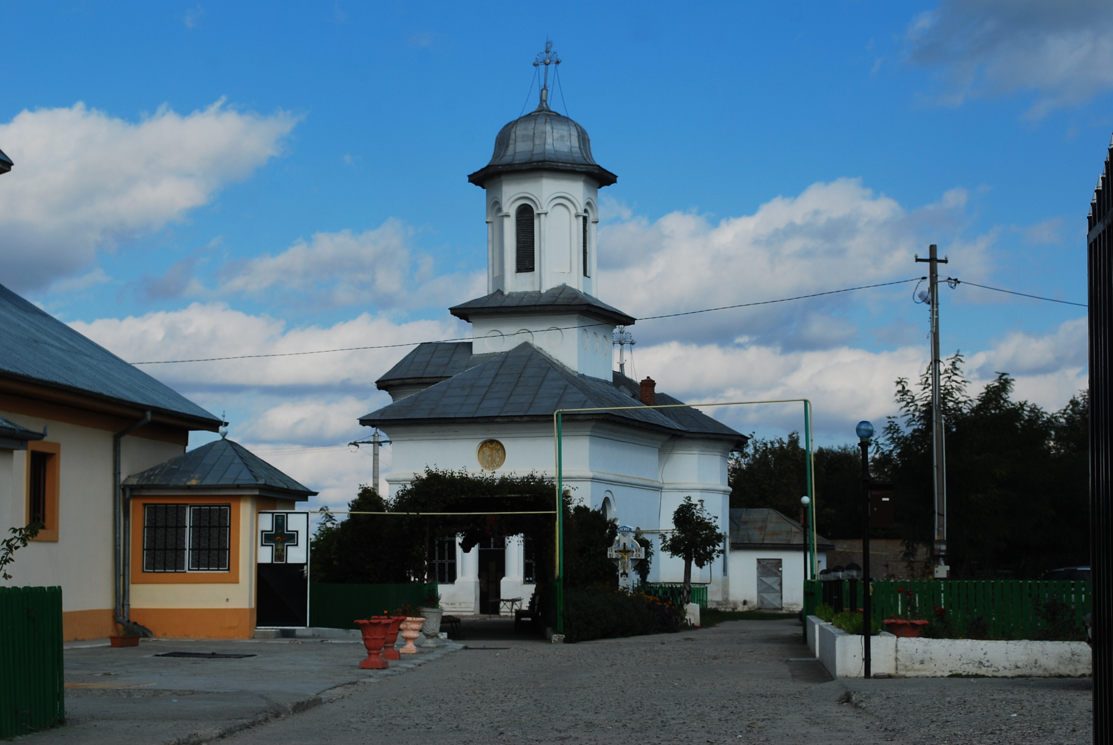 Gârlaşi church (of the Holy Emperors) in Buzău, Romania